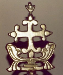 Western Syriac Cross used by the Syro-Malabar Catholic Church.